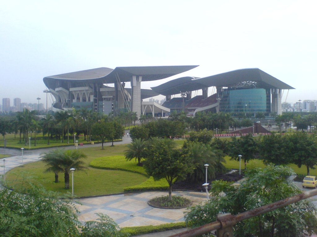 Guangdong Olympic Sports Centre. Architect: Ellerbe Becket